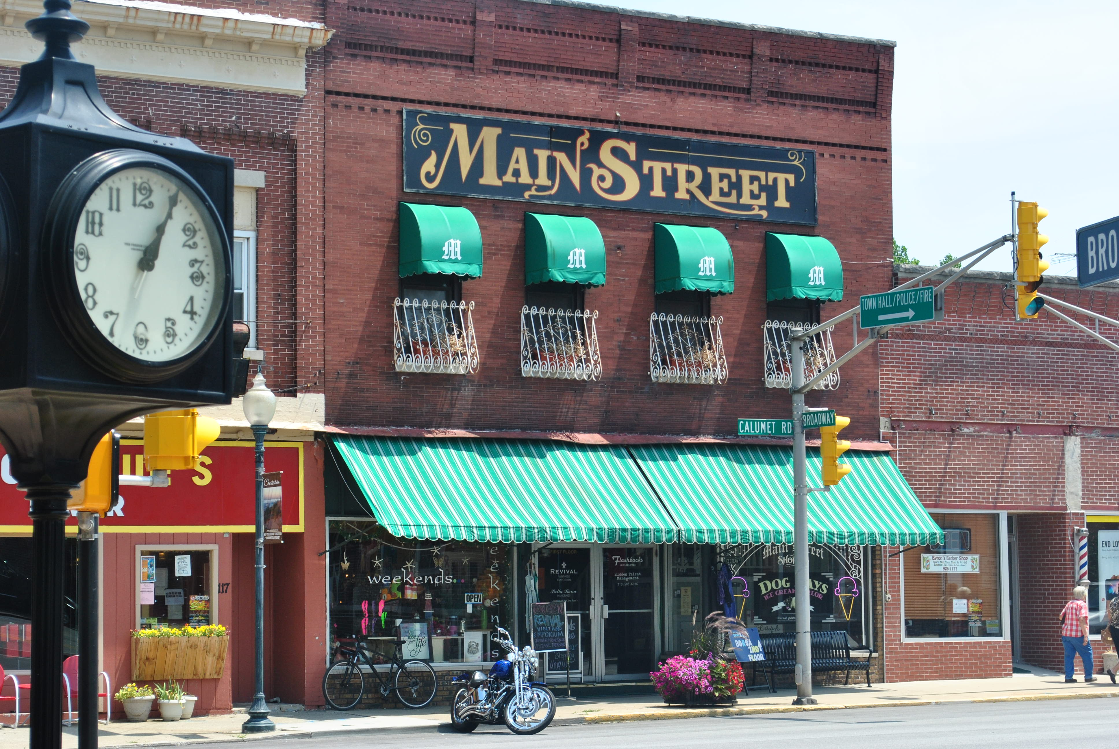 MainStreet Building in downtown Chesterton, Indiana